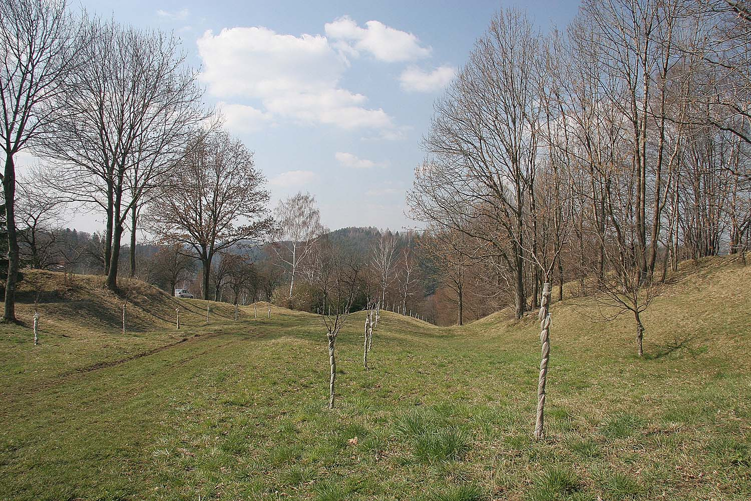 Celtic oppidum from 5th century BCE, České Lhotice, Czech Republic autor:Prazak datum: 1. 4. 2007